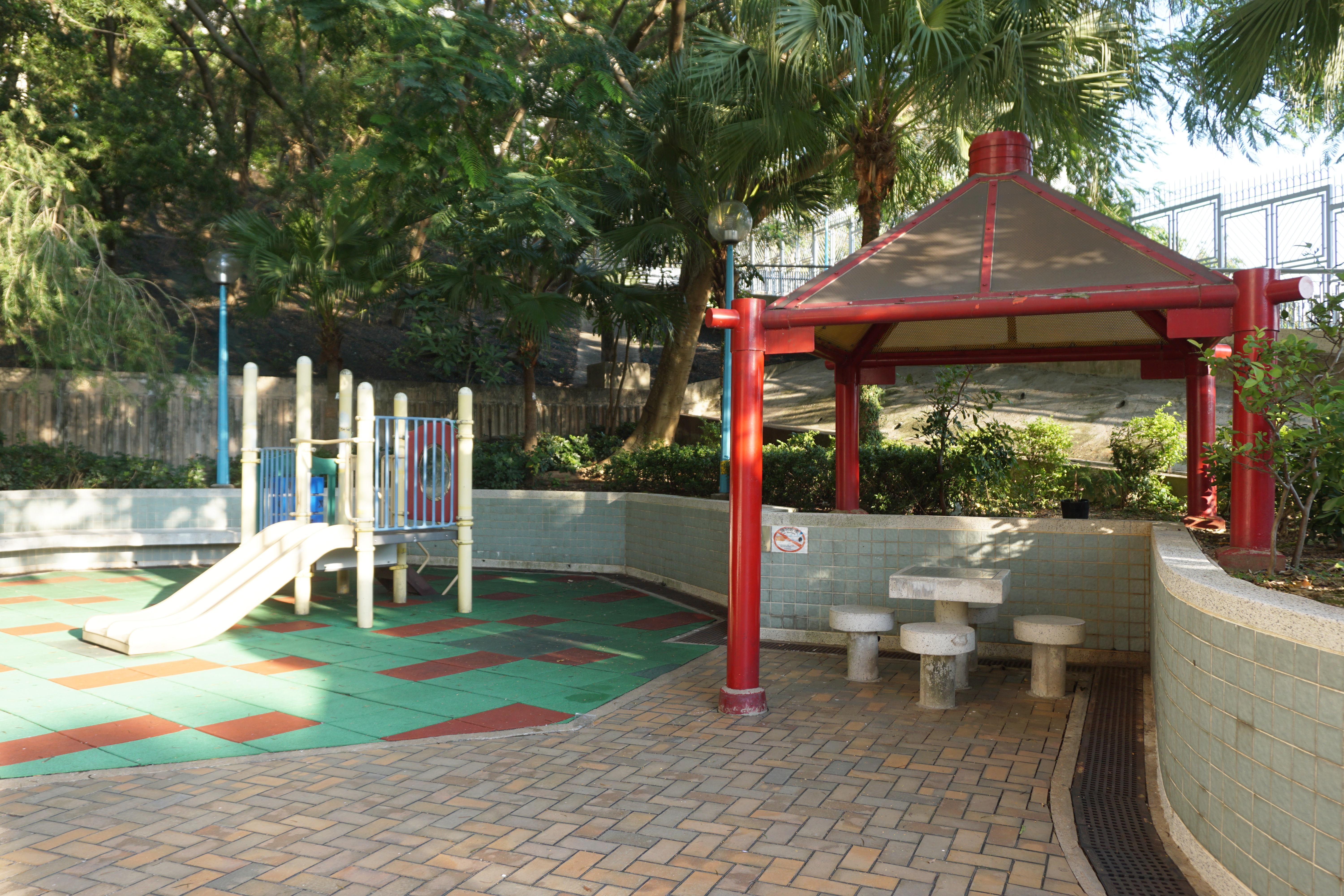 Ping Tin Estate in Lam Tin, Hong Kong.